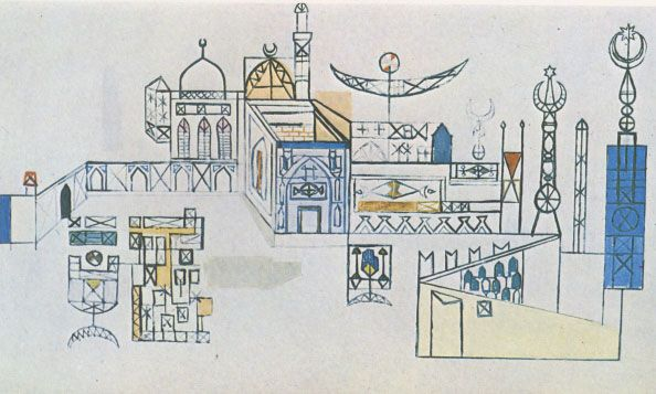 joad salem work